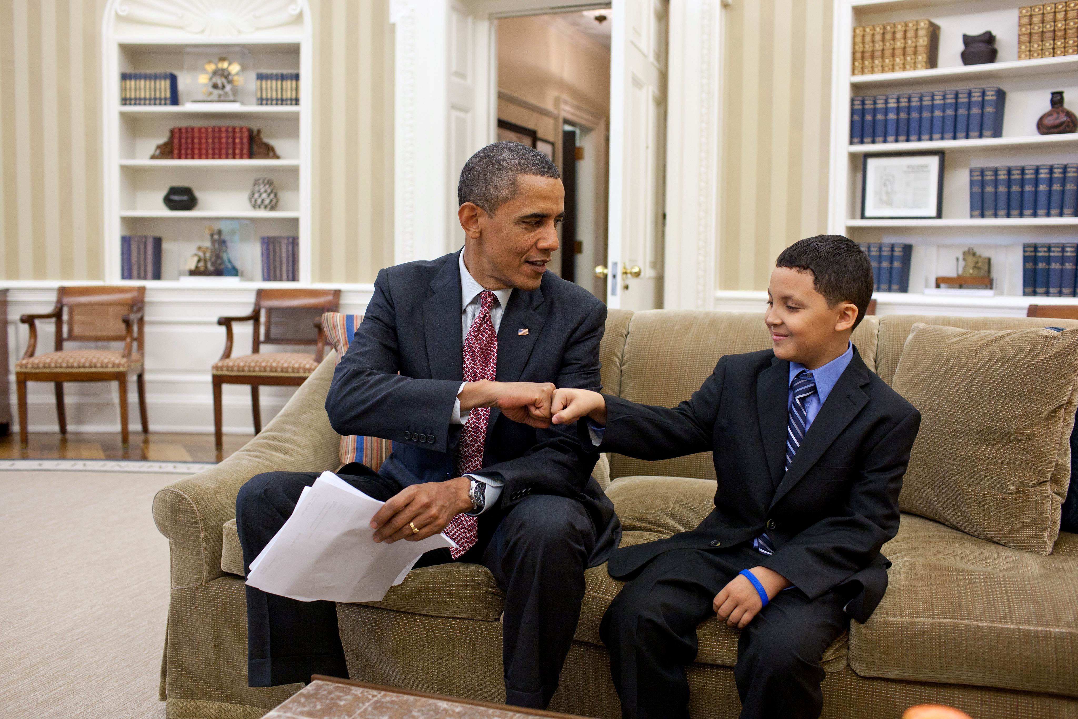 President Barack Obama fist-bumps Make-a-Wish child Diego Diaz after reading a letter he wrote, during his visit in the Oval Office, June 23, 2011.